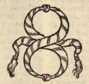 Emblem of Order of the Knot